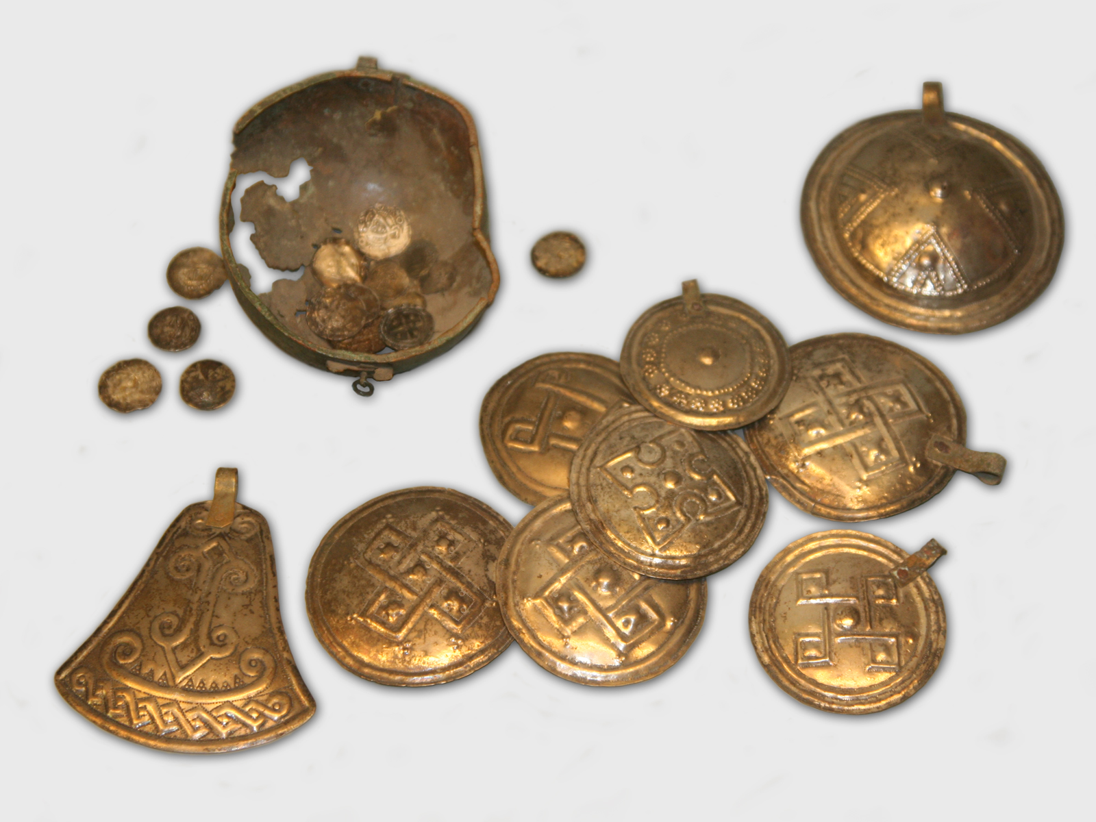 Photo of Iron age artifacts of the hoard from Kumna, Estonia.